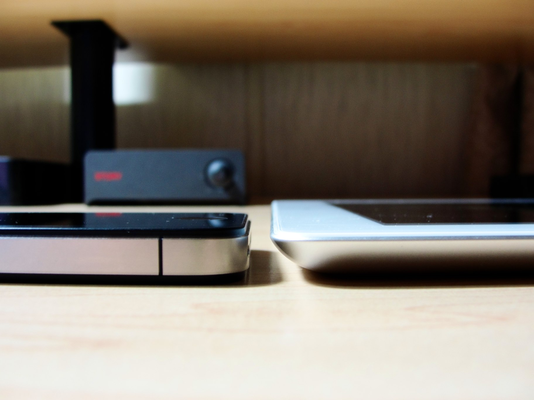 Left: iPhone 4. Right: iPad 2. Placed together for size comparison.